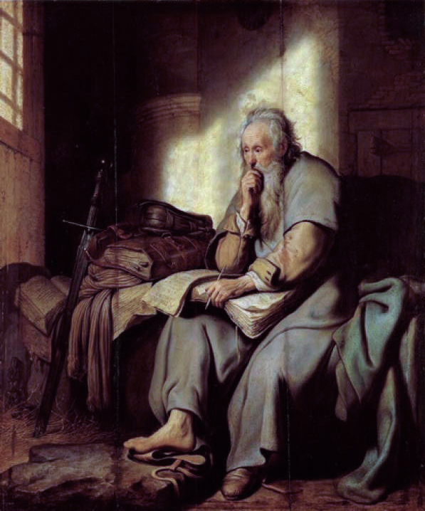 St. Paul in Prison